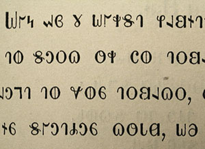 Photograph of characters from The Deseret second book by the University of Deseret